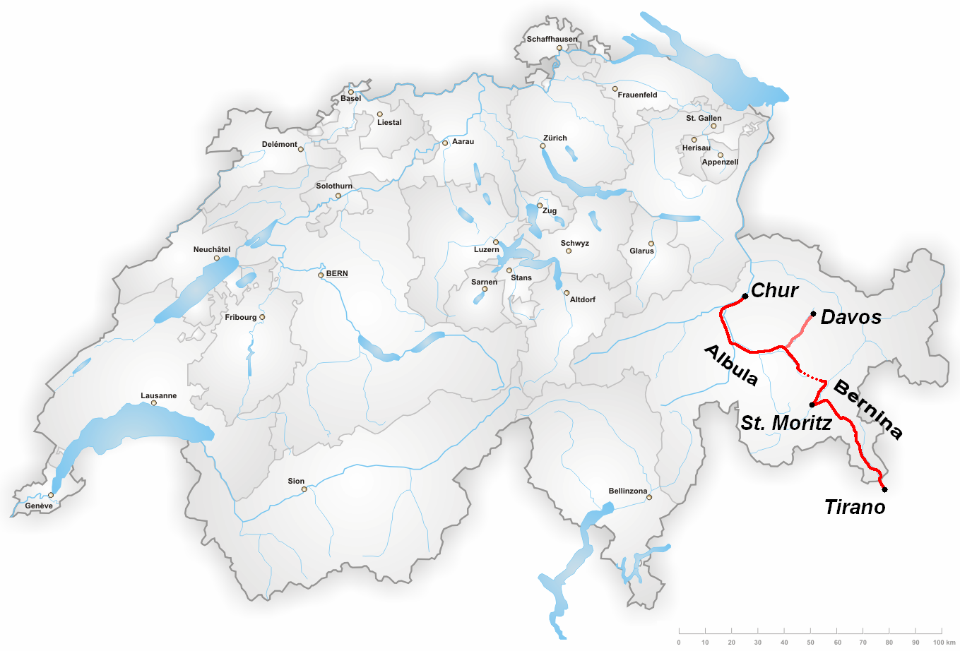 Map of Switzerland with the Bernina Express line. Map from Wikimedia Commons ( modified with Paint.